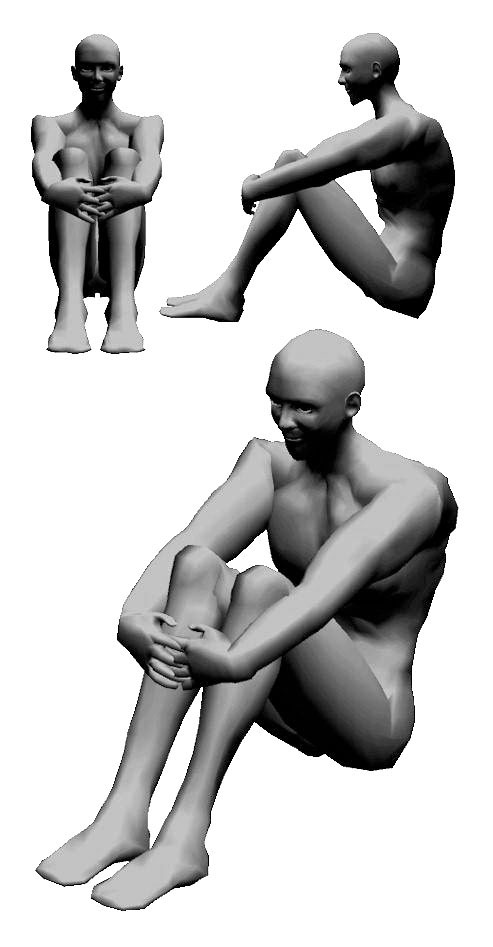 A man sitting on ground